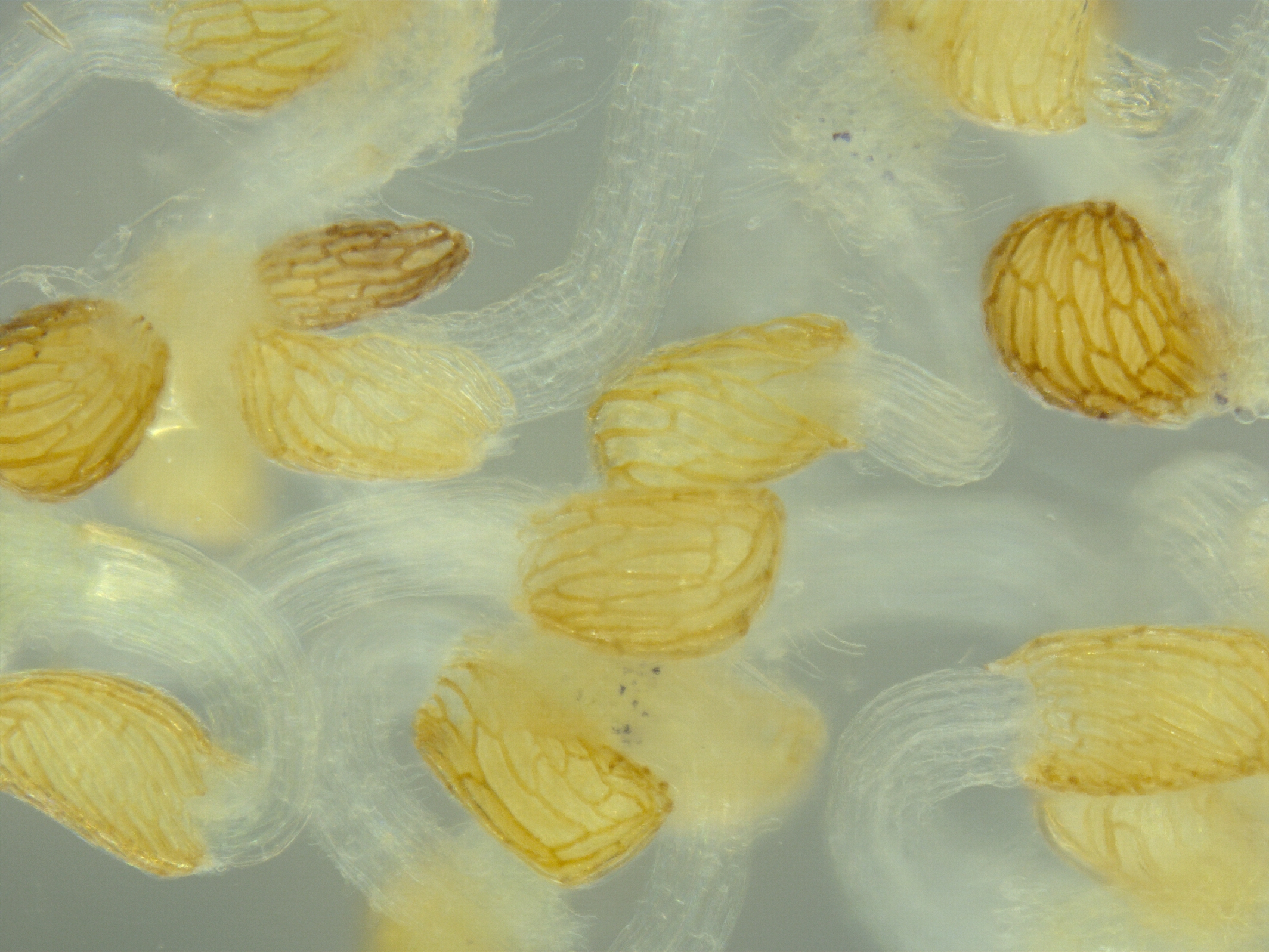 The germinated seed of hemiparasitic plant purple witchweed (Striga hermonthica Delle (Benth.) (Planta: Orobanchaceae). The germination was stimulated by the synthetic strigolactone GR 24. The picture was taken using stereomicroscope Axio Zoom.V16 (Carl Zeiss, Germany).